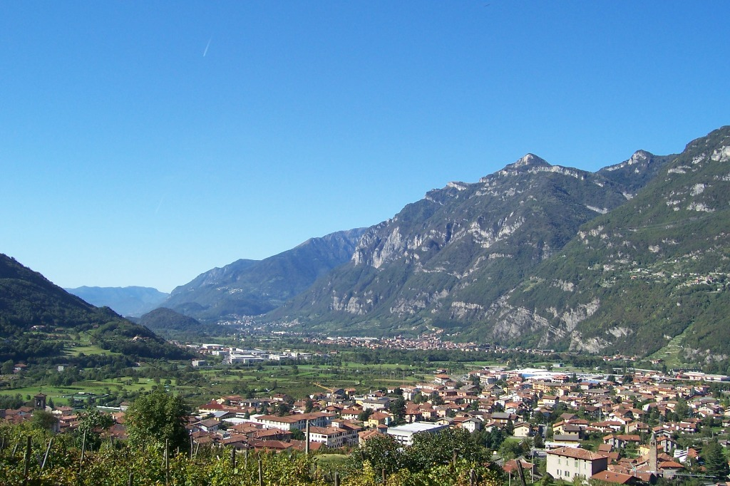 Piancogno and Esine, Val Camonica